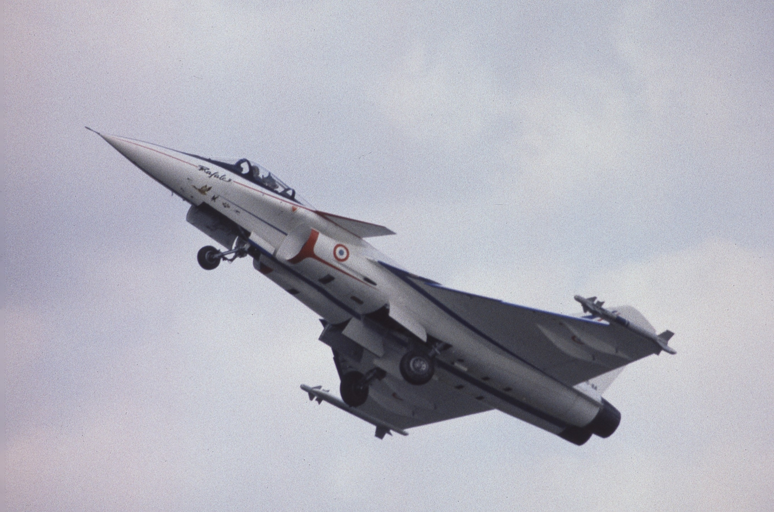 Dassault Rafale A A01 (cn A01) Farnborough (FAB / EGLF) UK - England, September 1988